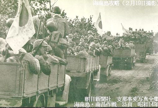 IJA soldiers in trucks during Invasion of Hainan Island by Asashi Shinbum reporter.